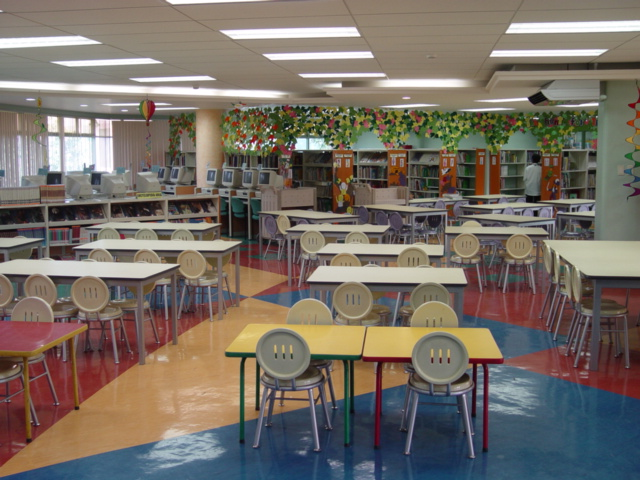 The Prep Library at the Miguel Building